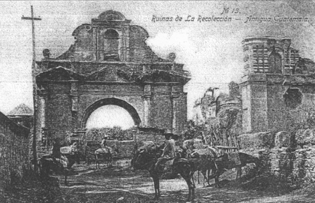 La Recoleccion Architectural Complex in Antigua Guatemala, 1897.